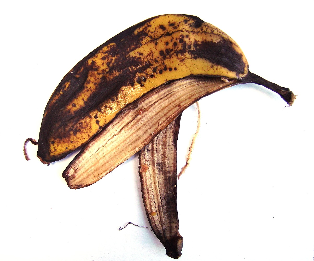 A banana skin.